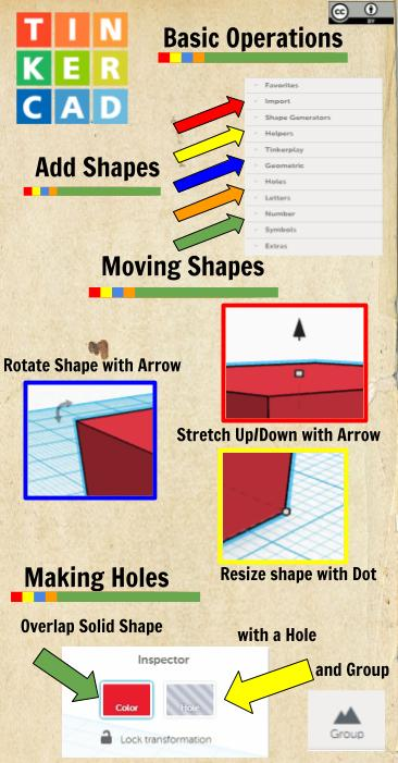 a simple infographic for using Tinkercad